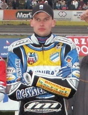 Matej Žagar before one of 2007 matches